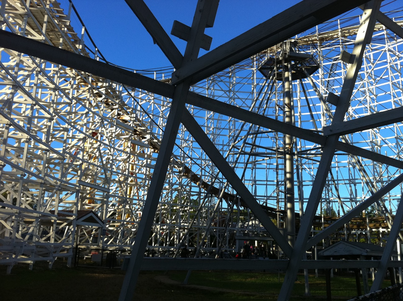 My fave. @ Six Flags New England